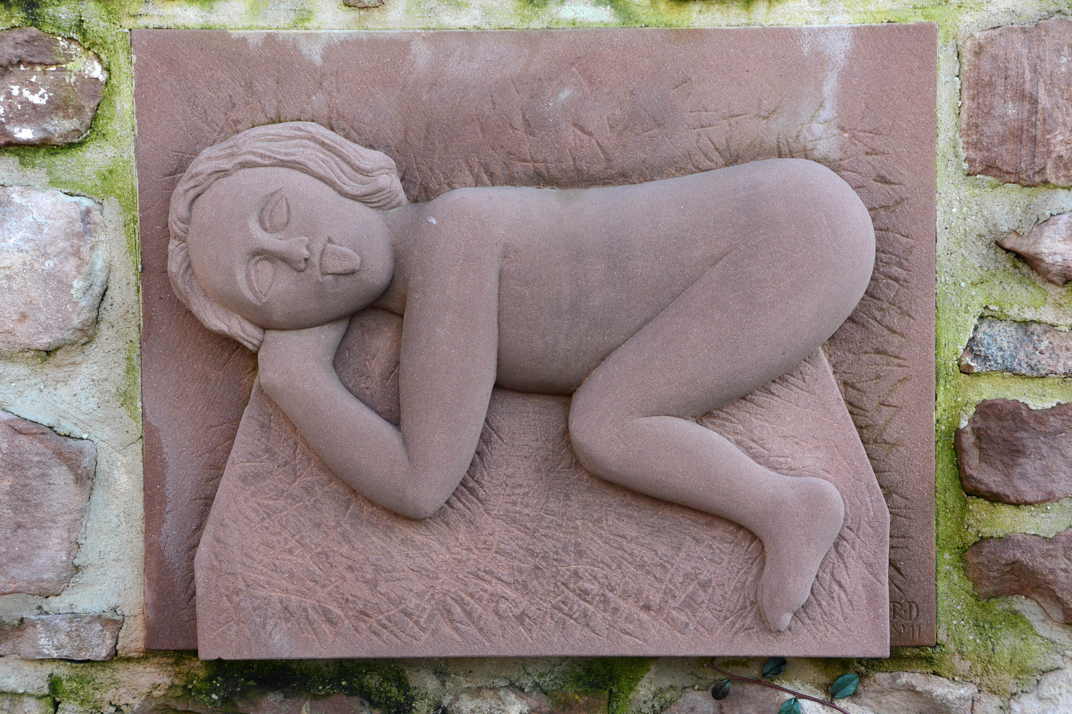 Traditional "Blecker", Buchen (Odenwald), Germany